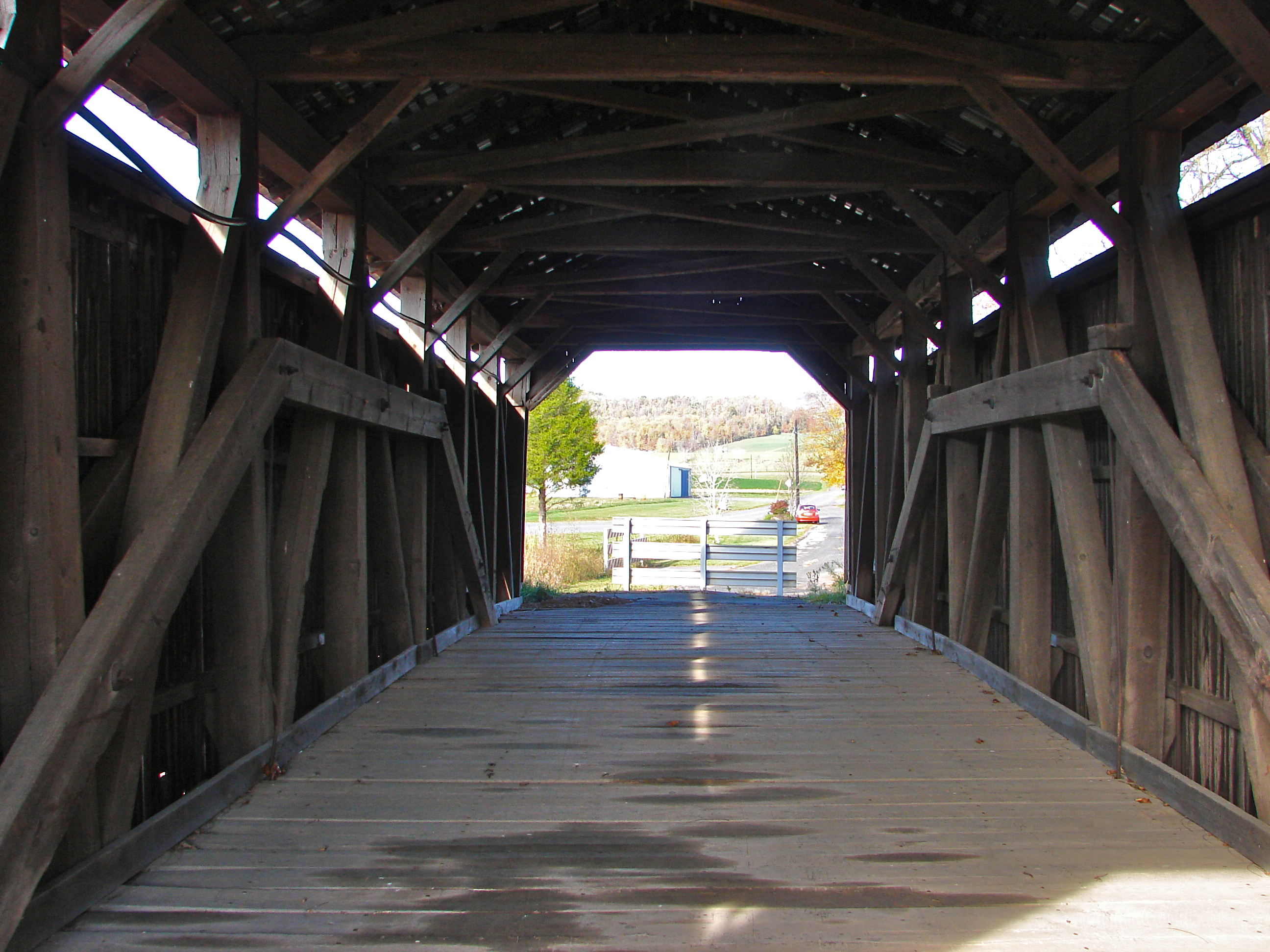 Interior of Kochendefer Covered Bridge on the NRHP since August 25, 1980. Southeast of Saville on Township 332, Saville Township, Perry County, Pennsylvania. Covered bridge number 38-50-09, built 1919, Modified King-Queen Post construction.